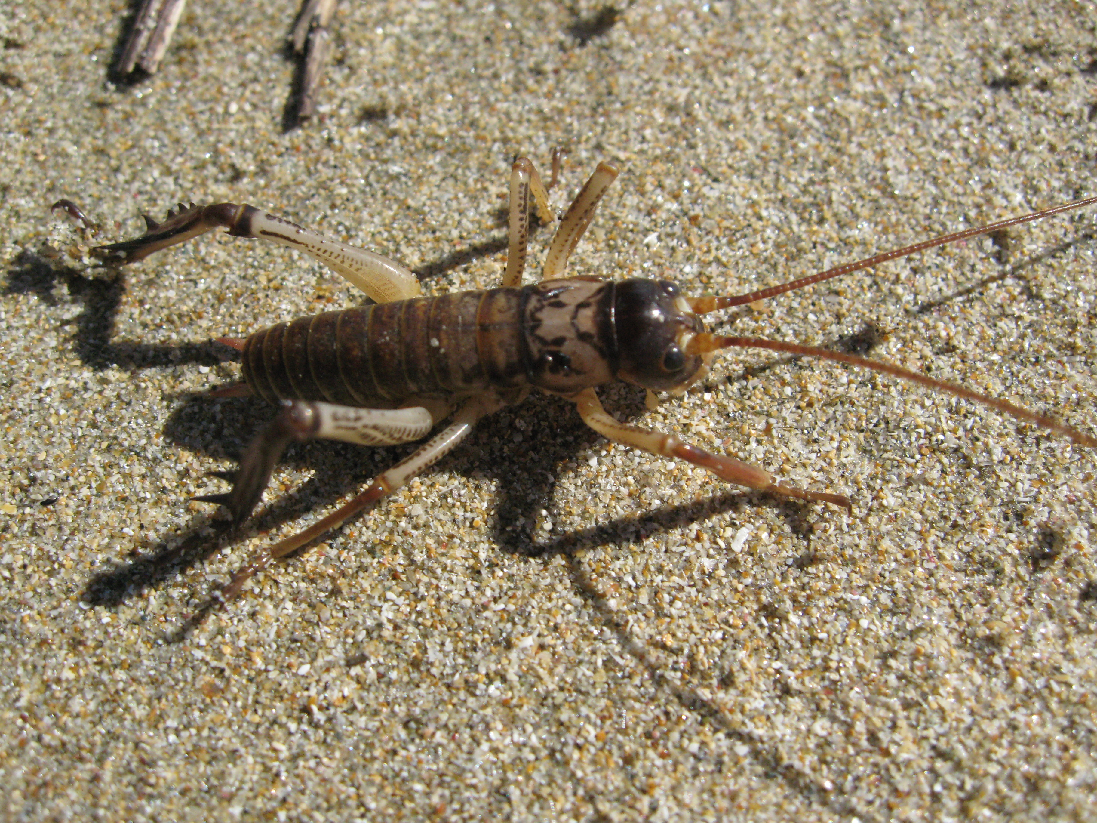 Weta on the beach.